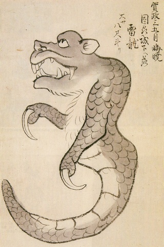 Rairyū (a dragon which falls to earth in a lightning bolt)